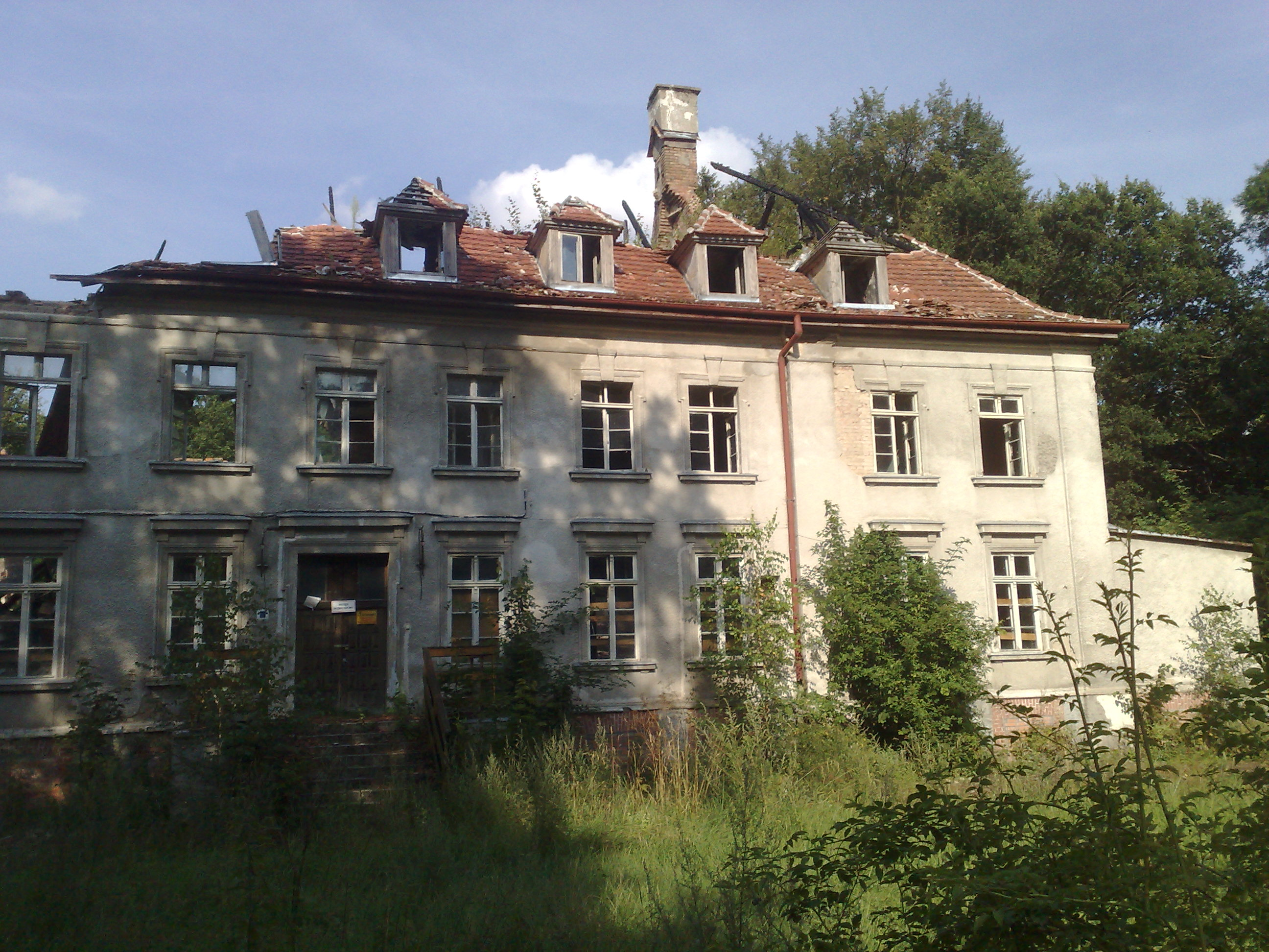 Ruins of palace in Wyczechy, Poland